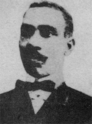 photograph of Pepe Sánchez (trova)